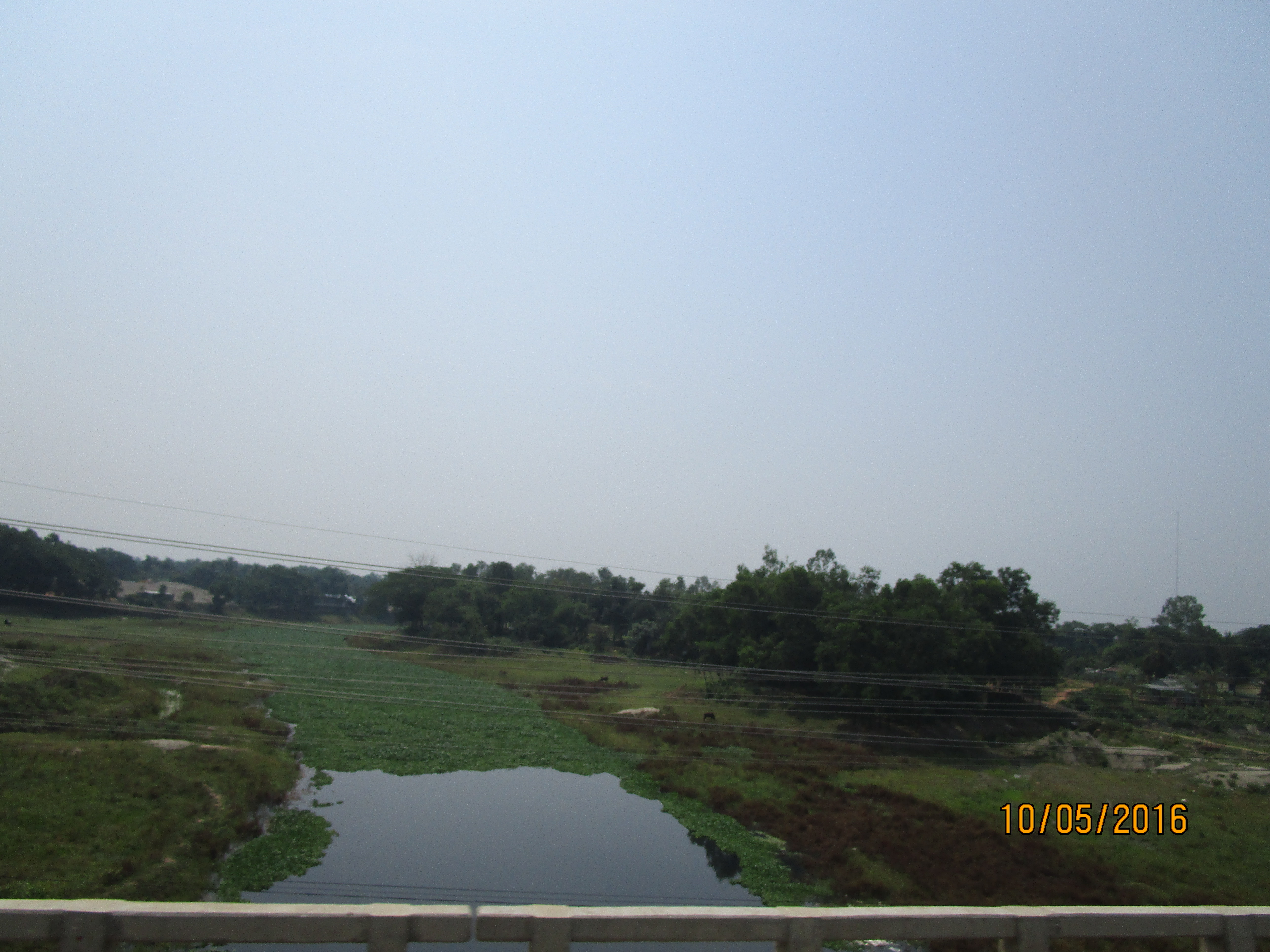 Madua River at Bhaluka